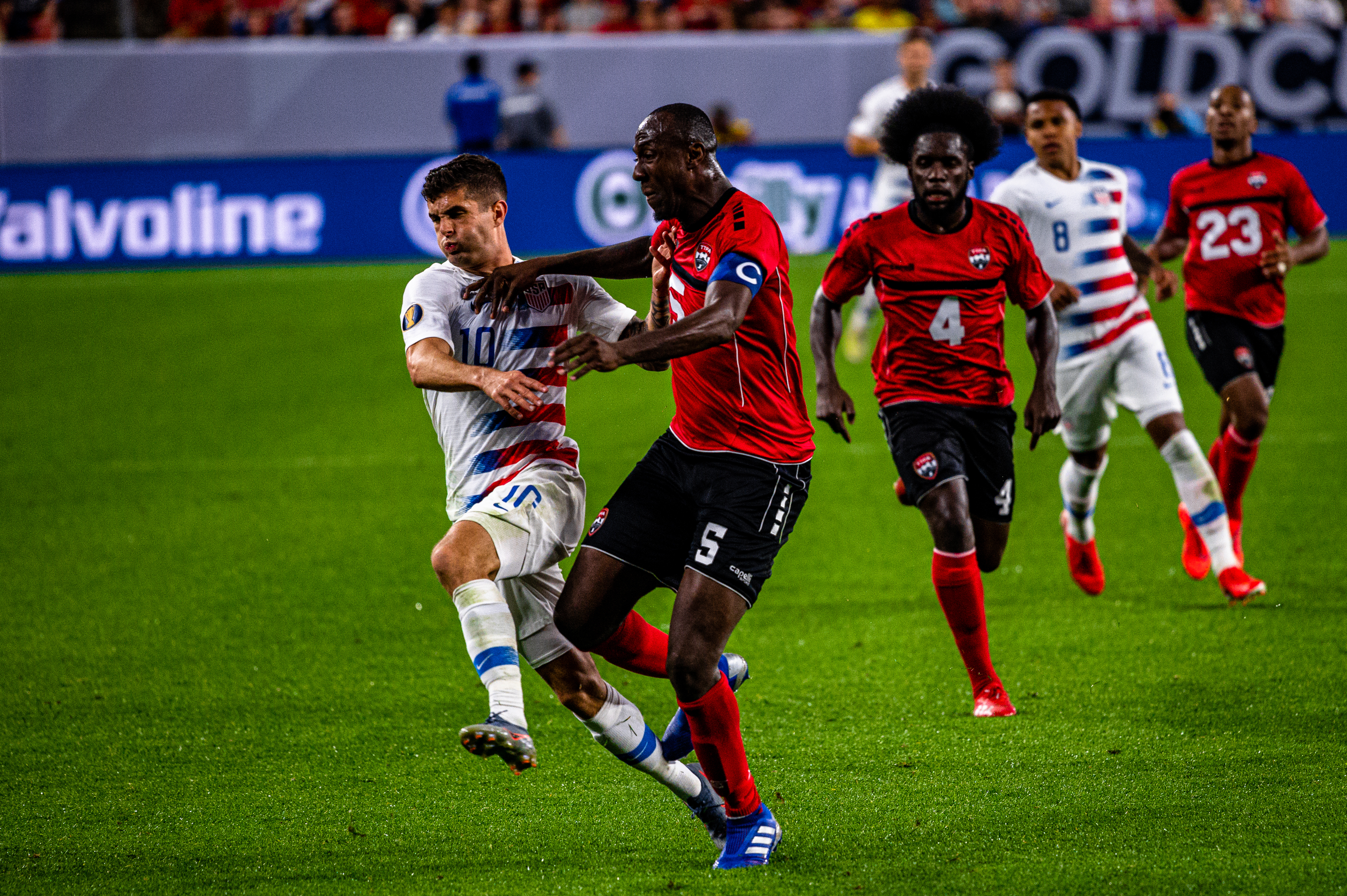 USMNT vs. Trinidad and Tobago